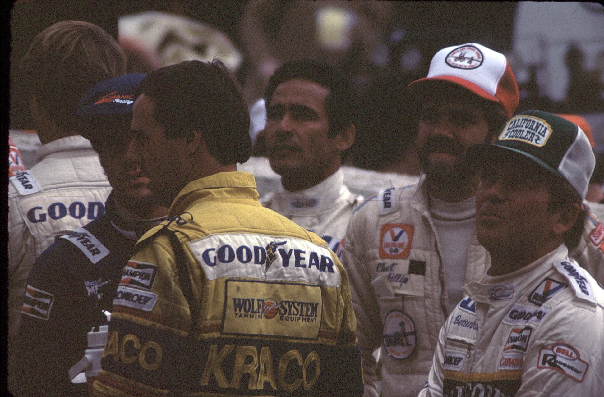 L-R: Roberto Guerrero, Geoff Brabham, Danny Ongais, Chet Fillip, Gary Bettenhausen. Racing drivers at a race in 1984.